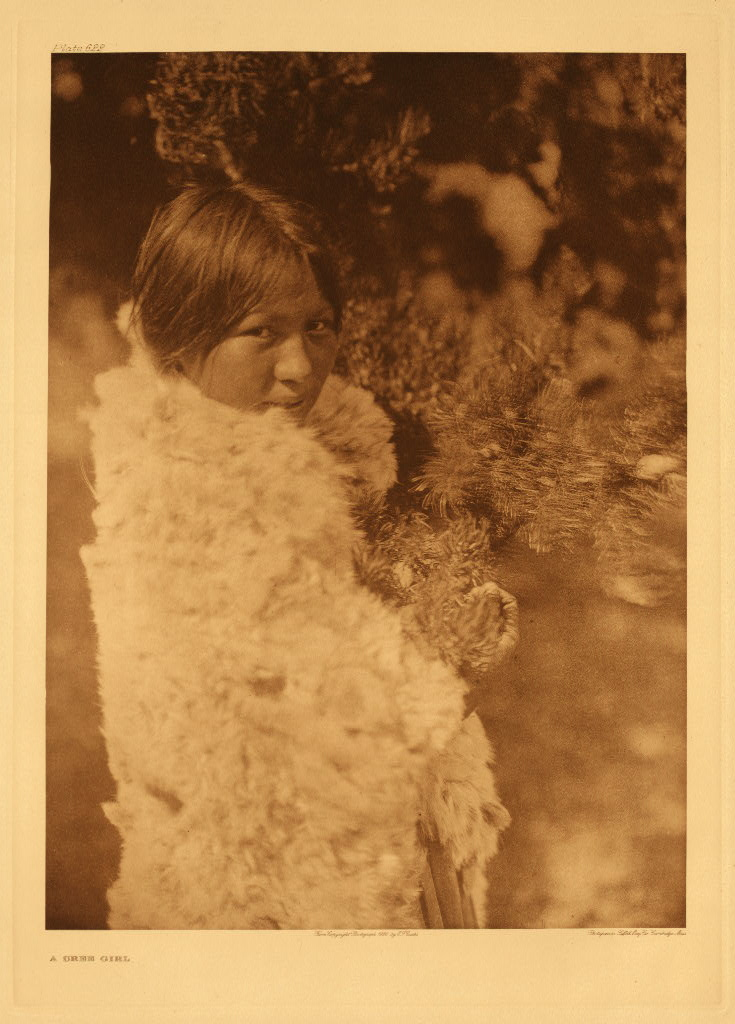 Nehiyaw Girl (1928).